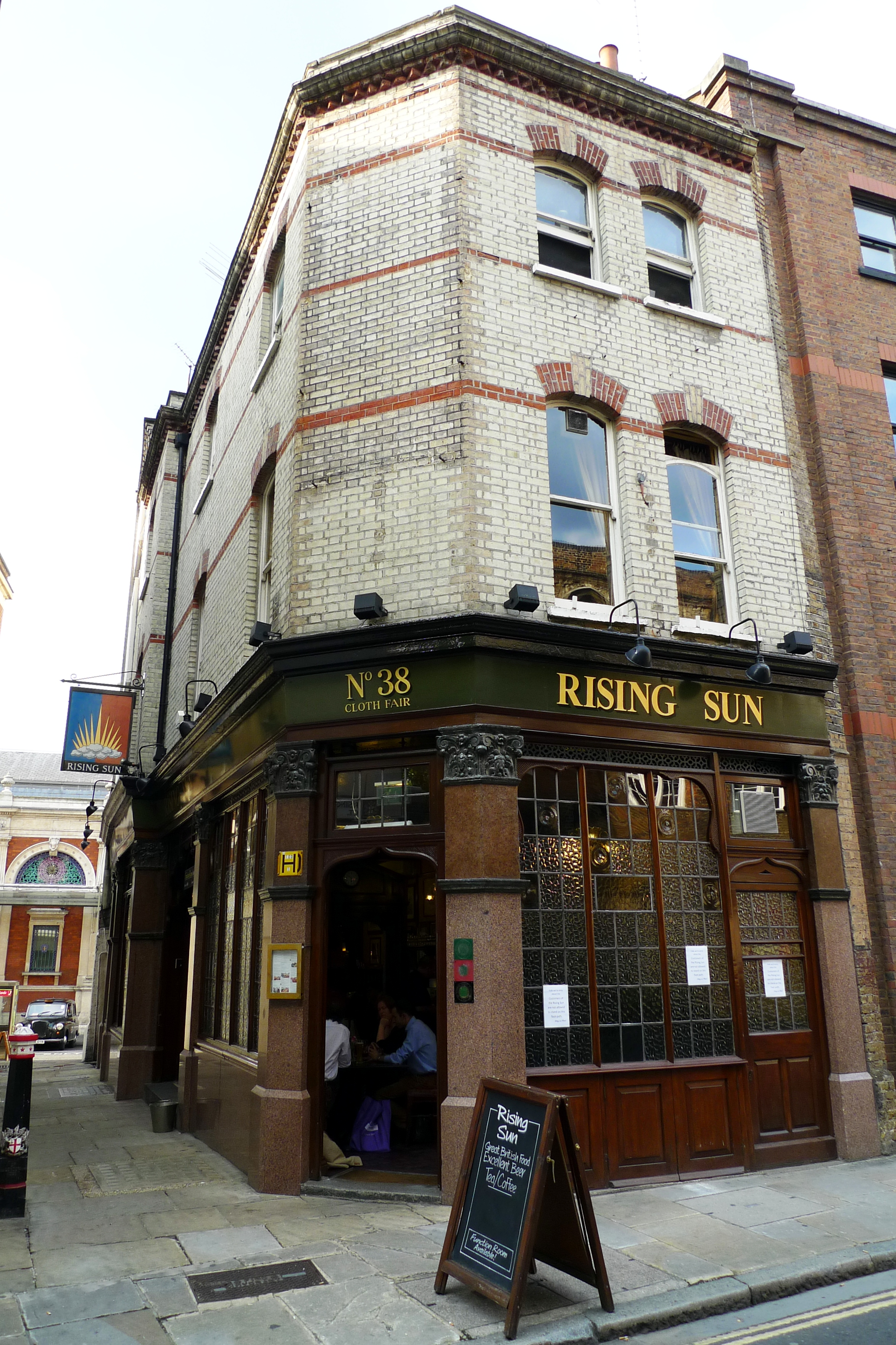 A Sam Smith's pub on Cloth Fair, a small street behind Smithfield, and open at the weekend. Address: 38 Cloth Fair. Former Name(s): The Starre Tavern (on the same site). Owner: Samuel Smith's. Links: London Pubology